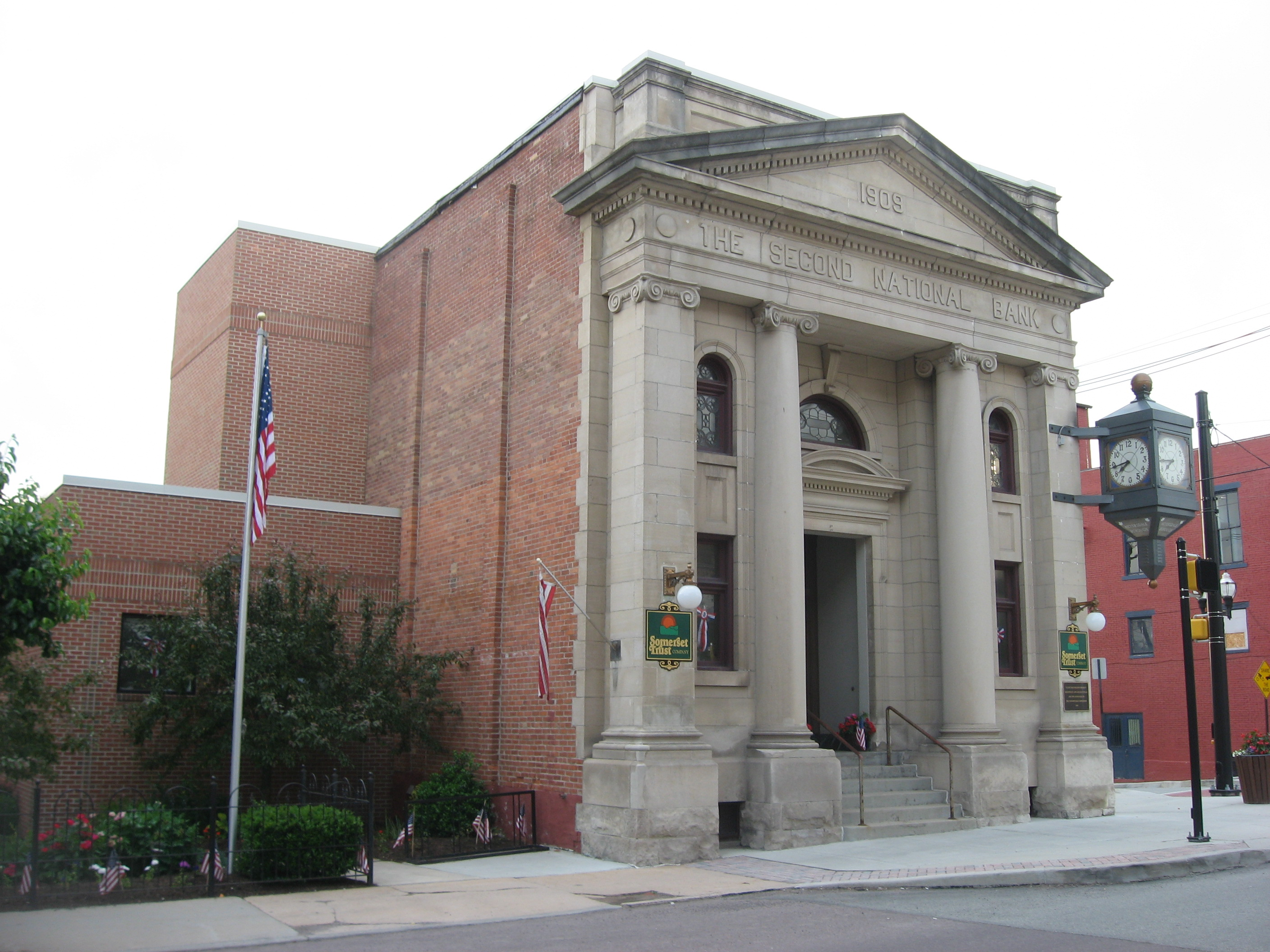 Front and southern side of the Second National Bank of Meyersdale, located at 151 Center Street in downtown Meyersdale, Pennsylvania, United States. Built in 1909, it is listed on the National Register of Historic Places.